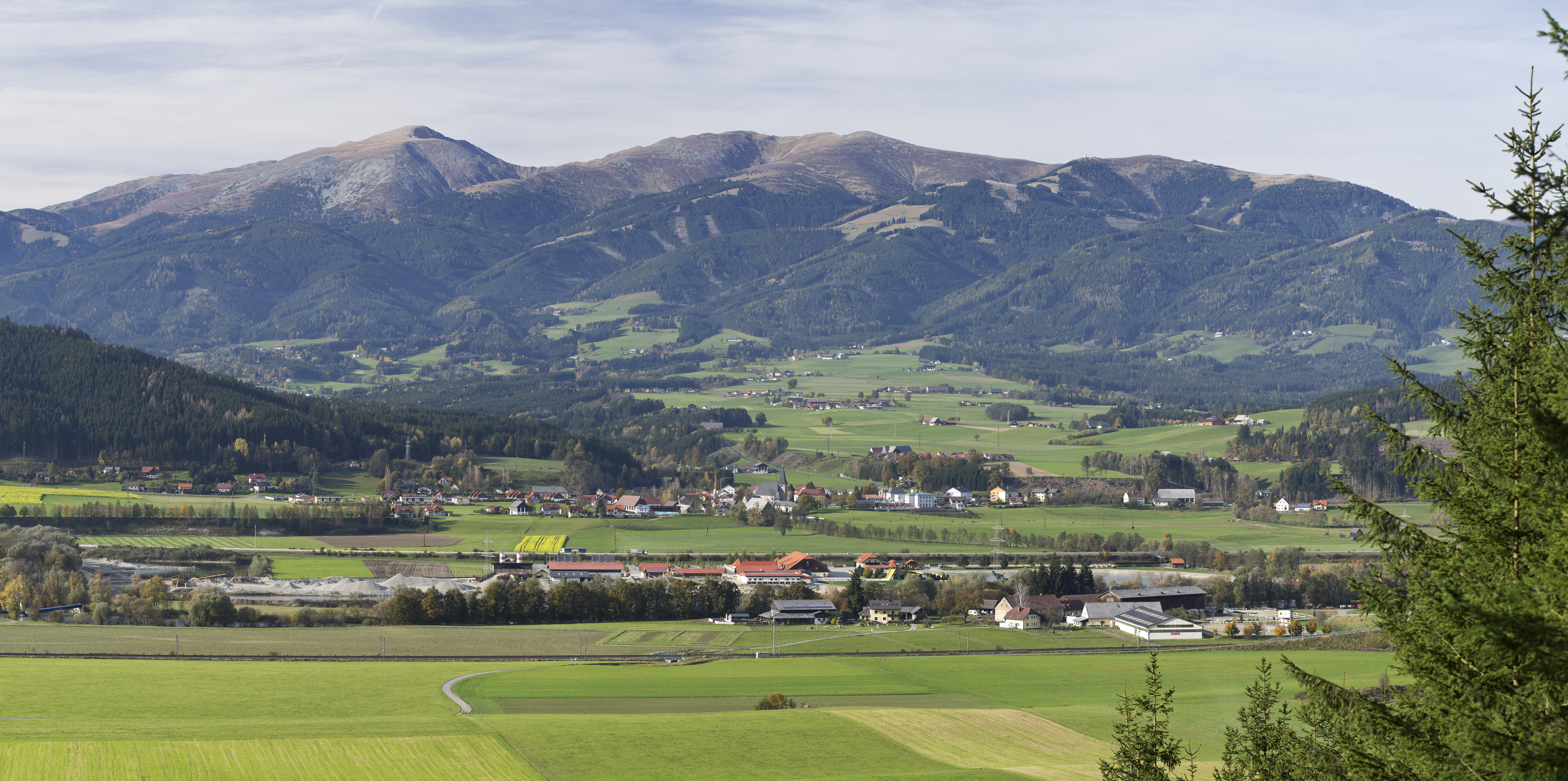 Kobenz bei Knittelfeld von Südosten